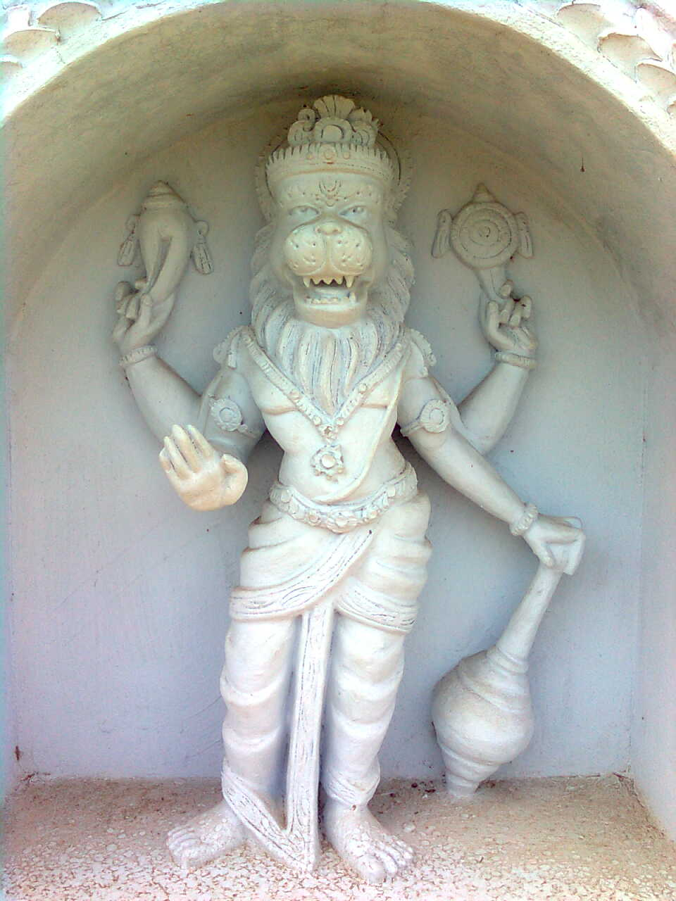 Lord Narasimha statue on walls of Simhachalam Temple